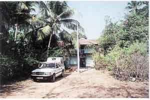 Shri Gaudapadacharya Mutt at Sadashivgad.